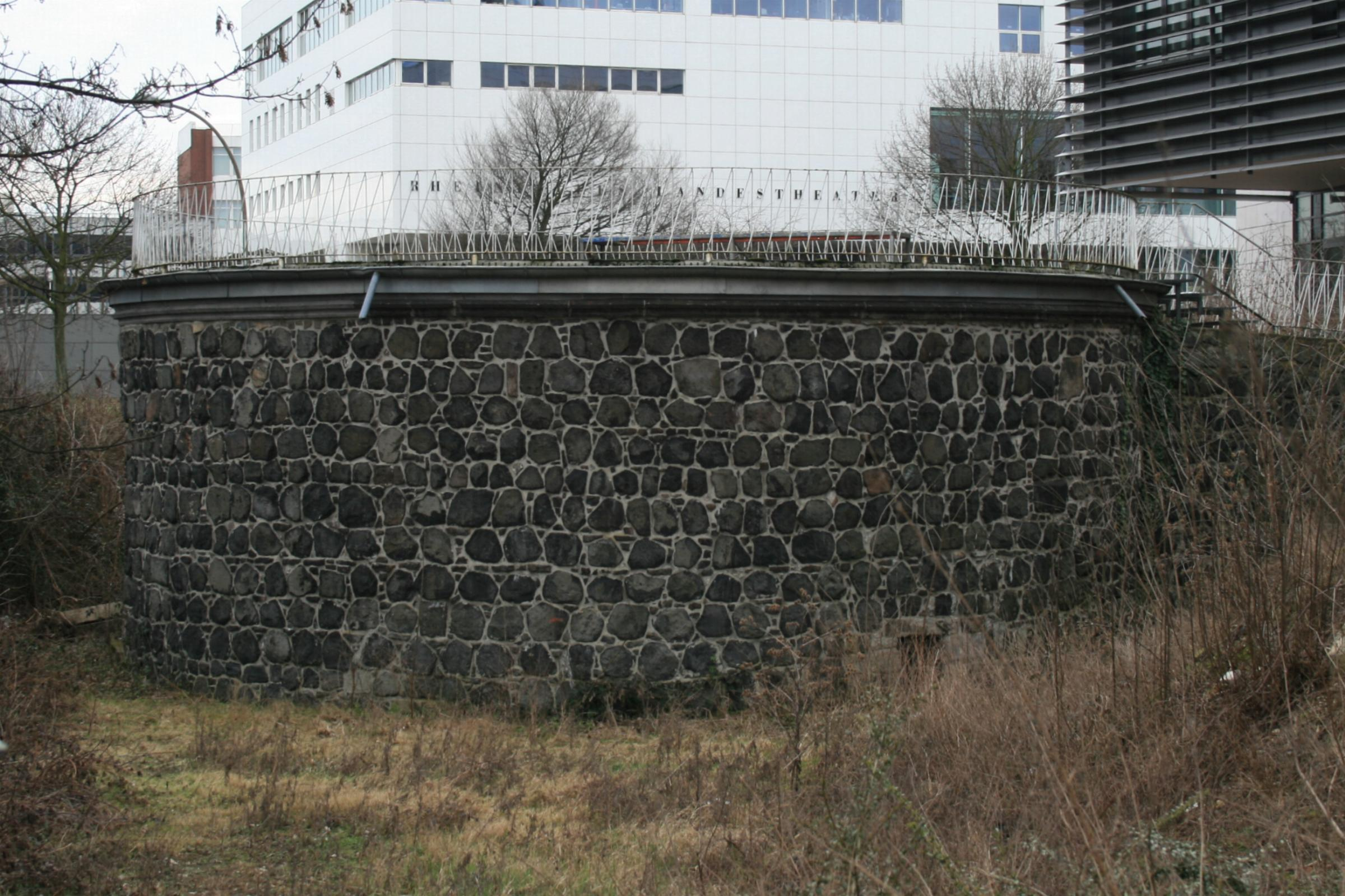 This is a photograph of an architectural monument.